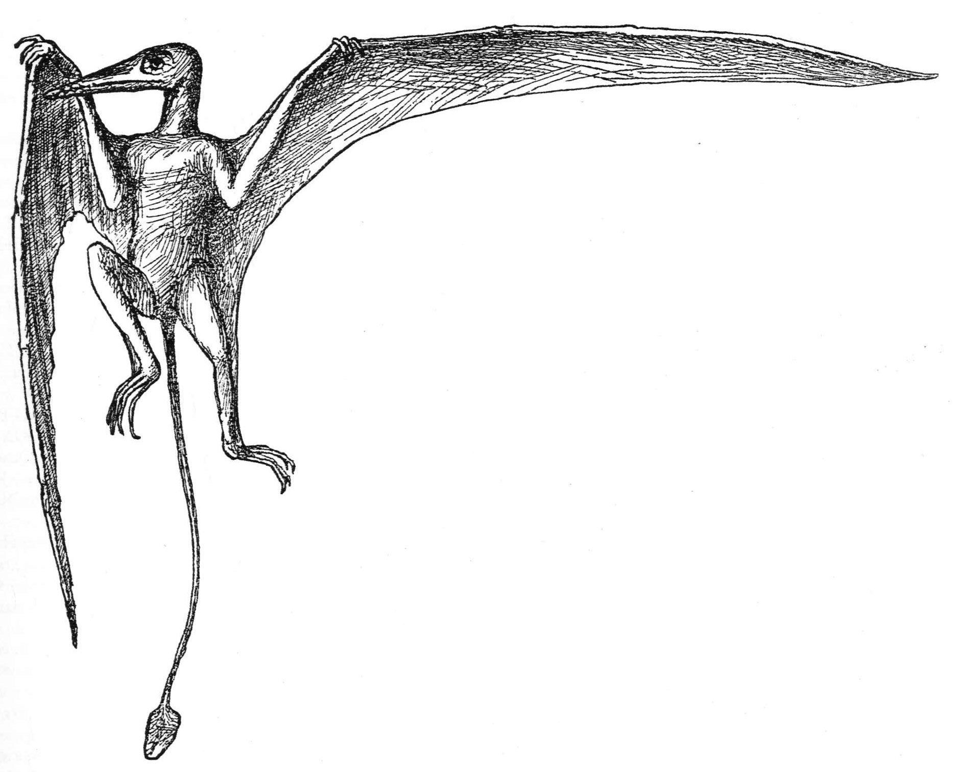 Reconstruction of Rhamphorhynchus by German palaeontologist Karl Alfred von Zittel (1839-1904) in 1882.